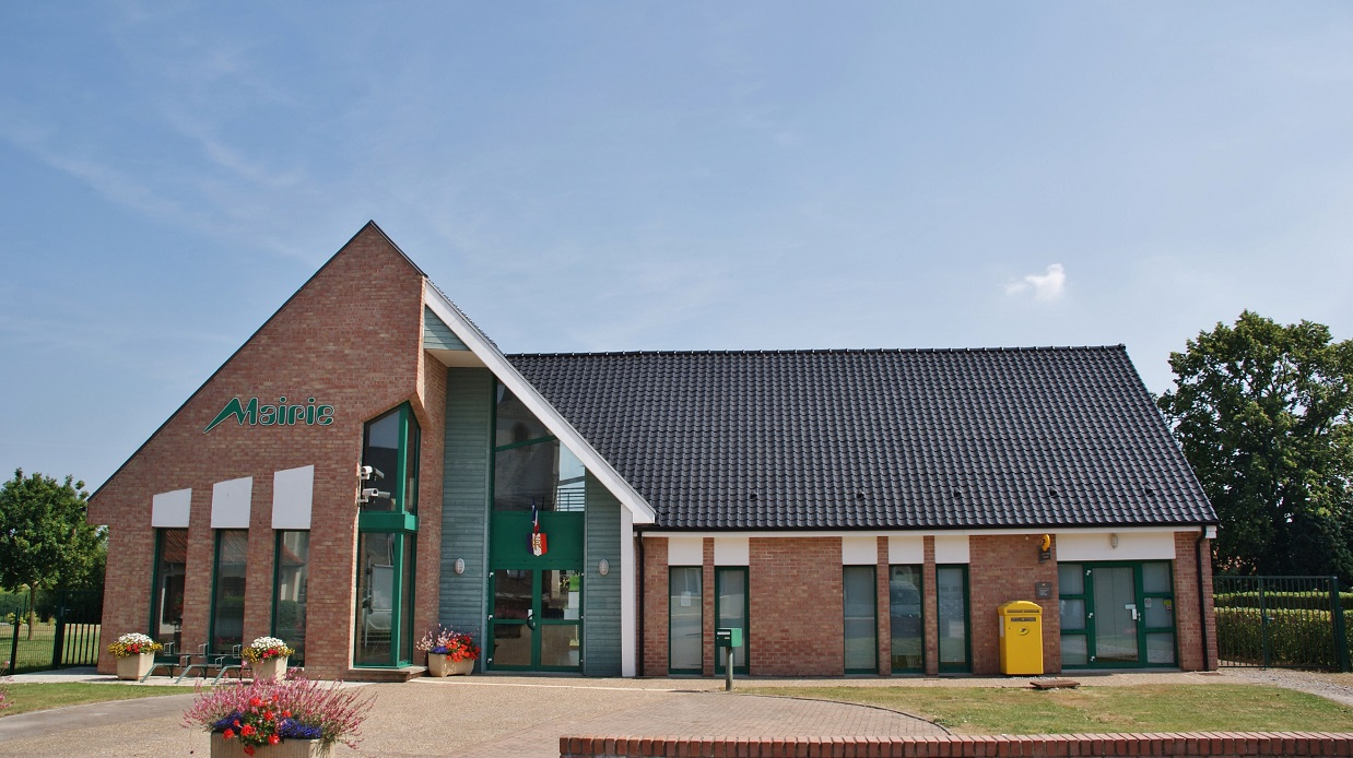 La Mairie